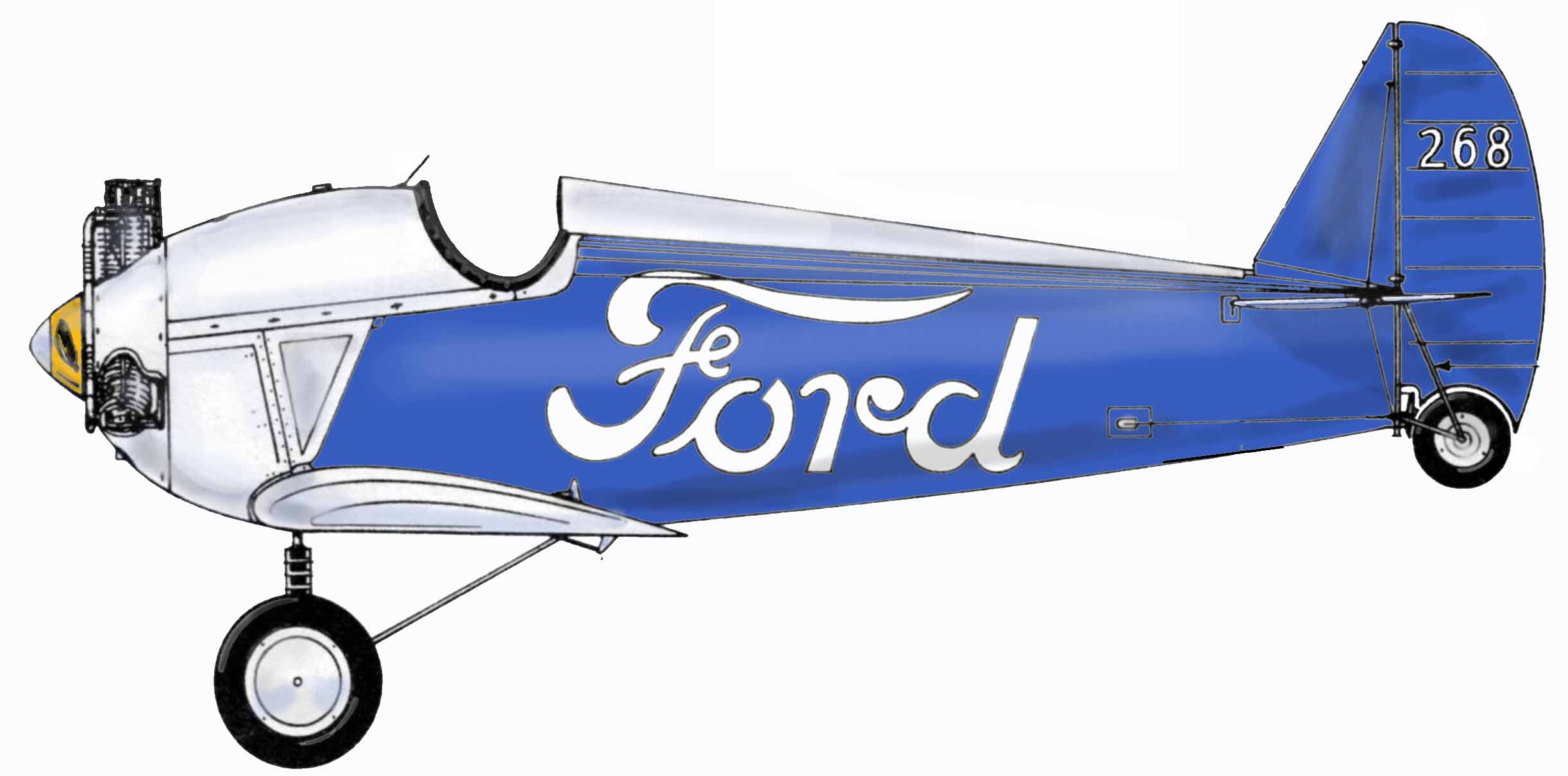 Ford Flivver profile drawing